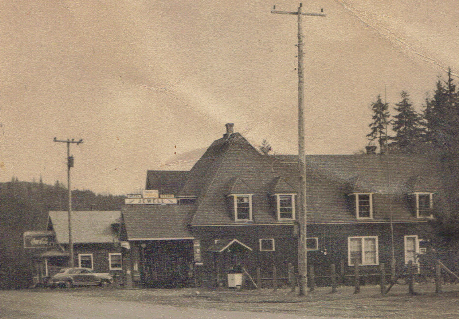 Jewell Hotel in Jewell, Clatsop County, Oregon. The pool hall can be seen in the distance to the left. Sign on first building reads "Hotel" and "Store" above a sign that reads "Jewell". The pool hall's sign features a Coca Cola advertisement. Both buildings burned at unknown dates.